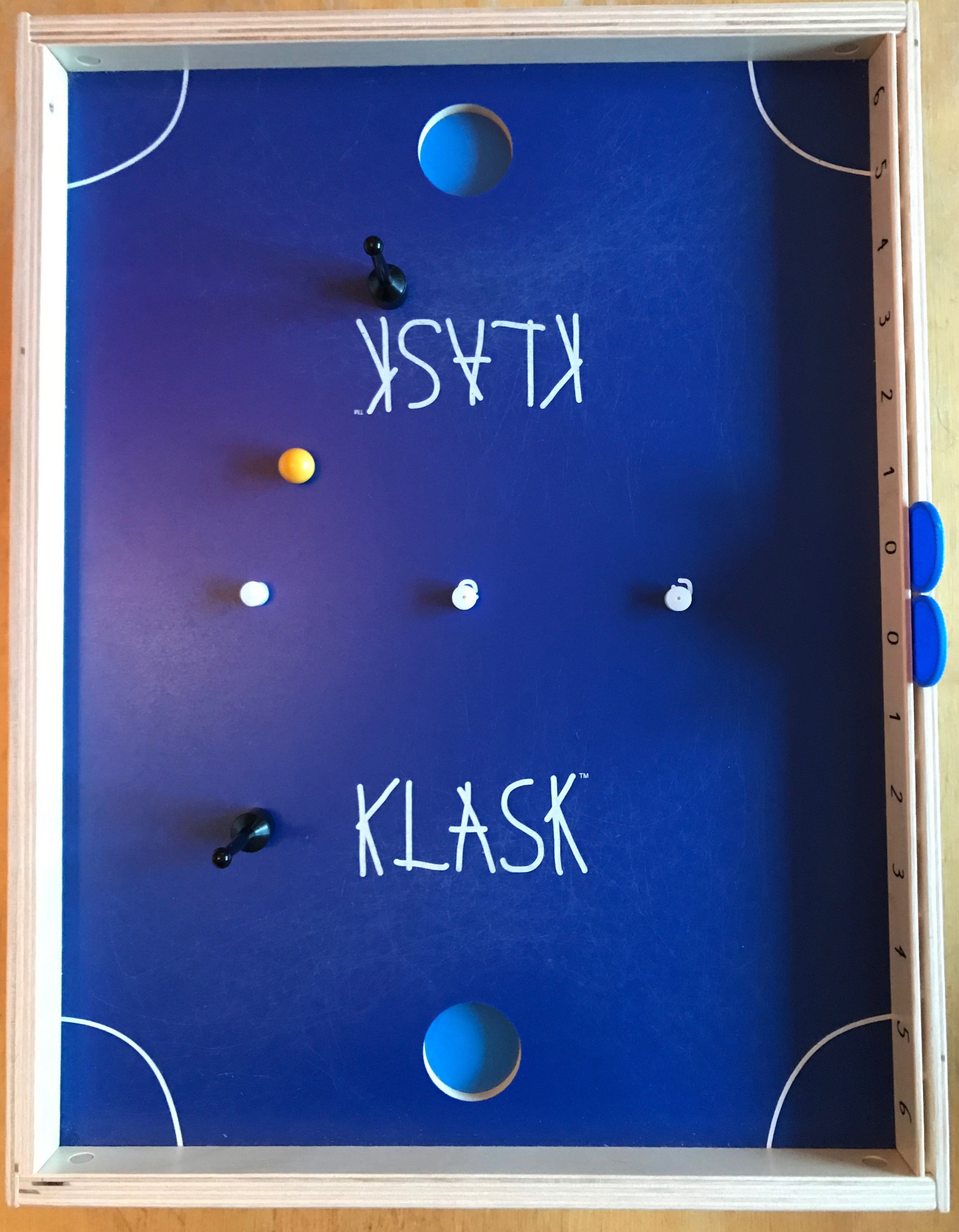 KLASK - danish physical-skill game (Game Factory)